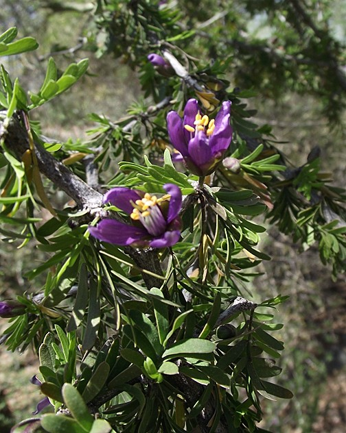 Guaiacum angustifolium at Desert Botanical Garden, Phoenix, Arizona, USA. Identified by sign.